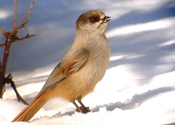 Siberian jay (Perisoreus infaustus), photographed at Undersåker, Jämtland